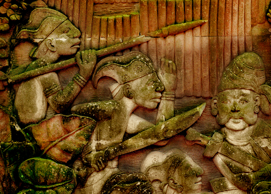 Malay warriors on a relief in Fort Canning Park, Singapore. This is only a small part of a huge mural stretching along a pathway which depicts activities that may have taken place in ancient Singapore. Fort Canning Park was once the burial ground of Malay kings.